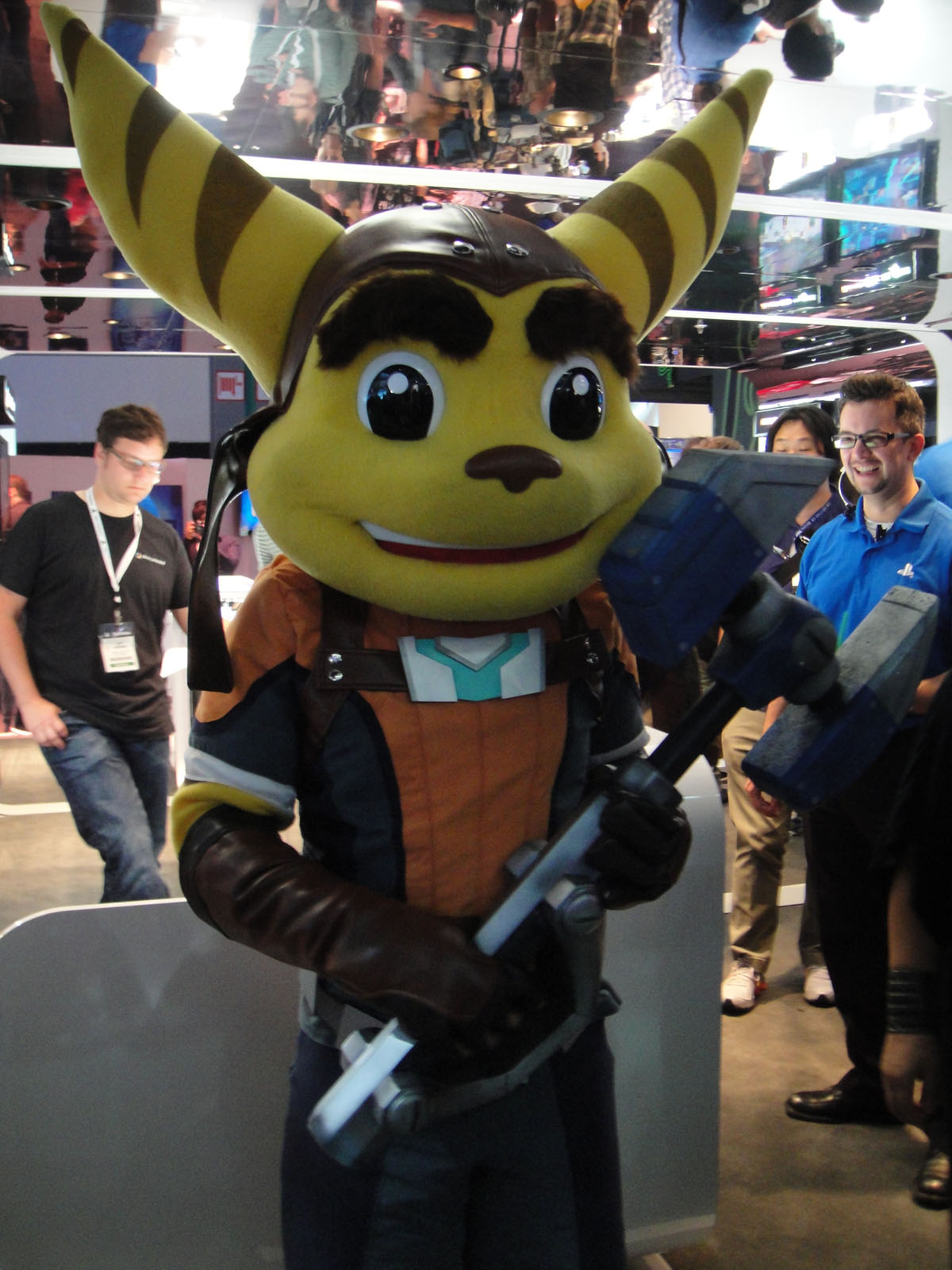 photo 2011 taken by Doug Kline If you're interested in higher resolution versions of my images, contact me via my profile page.